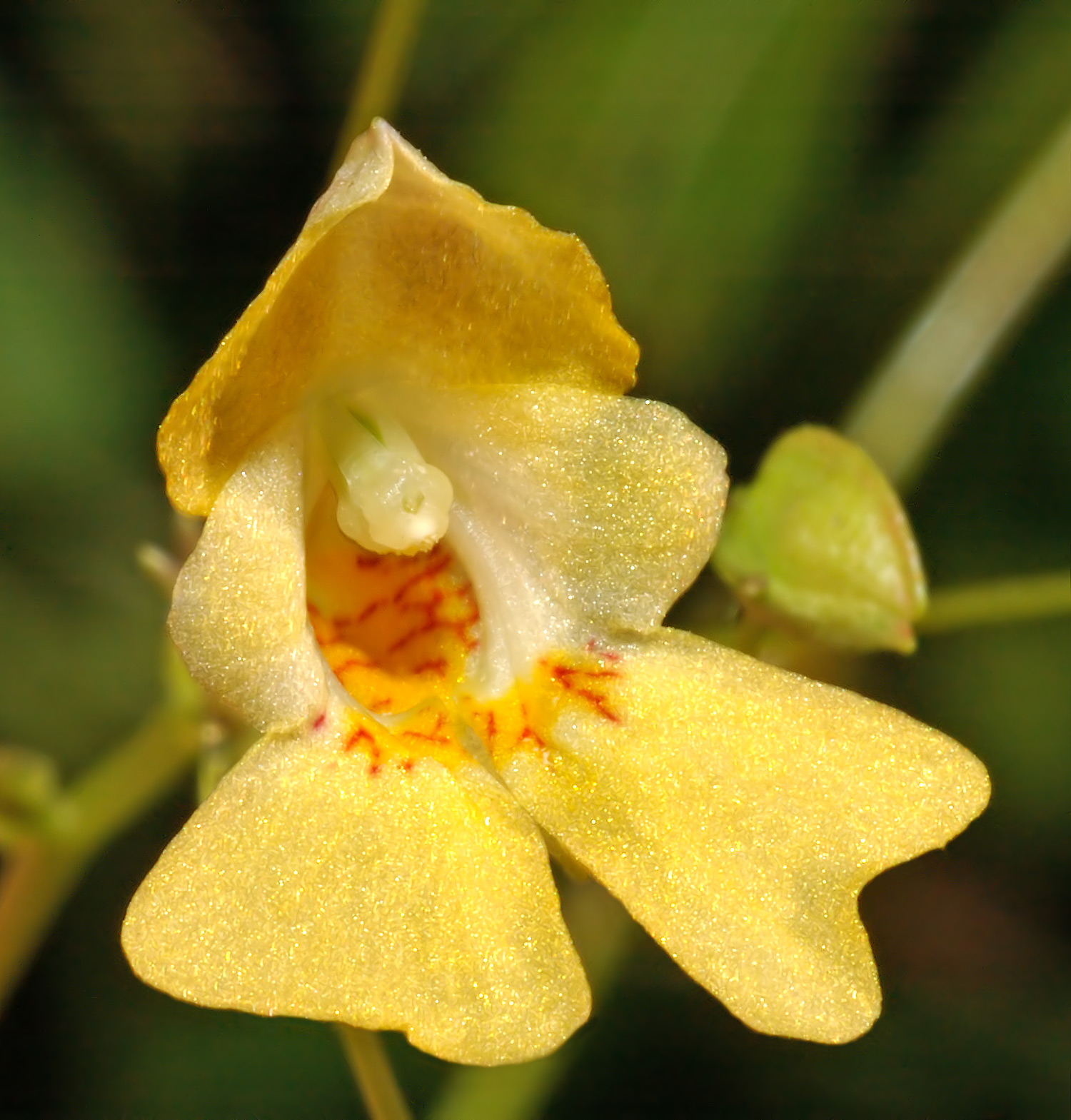 This image shows a Small balsam blossom close-up (Impatiens parviflora).